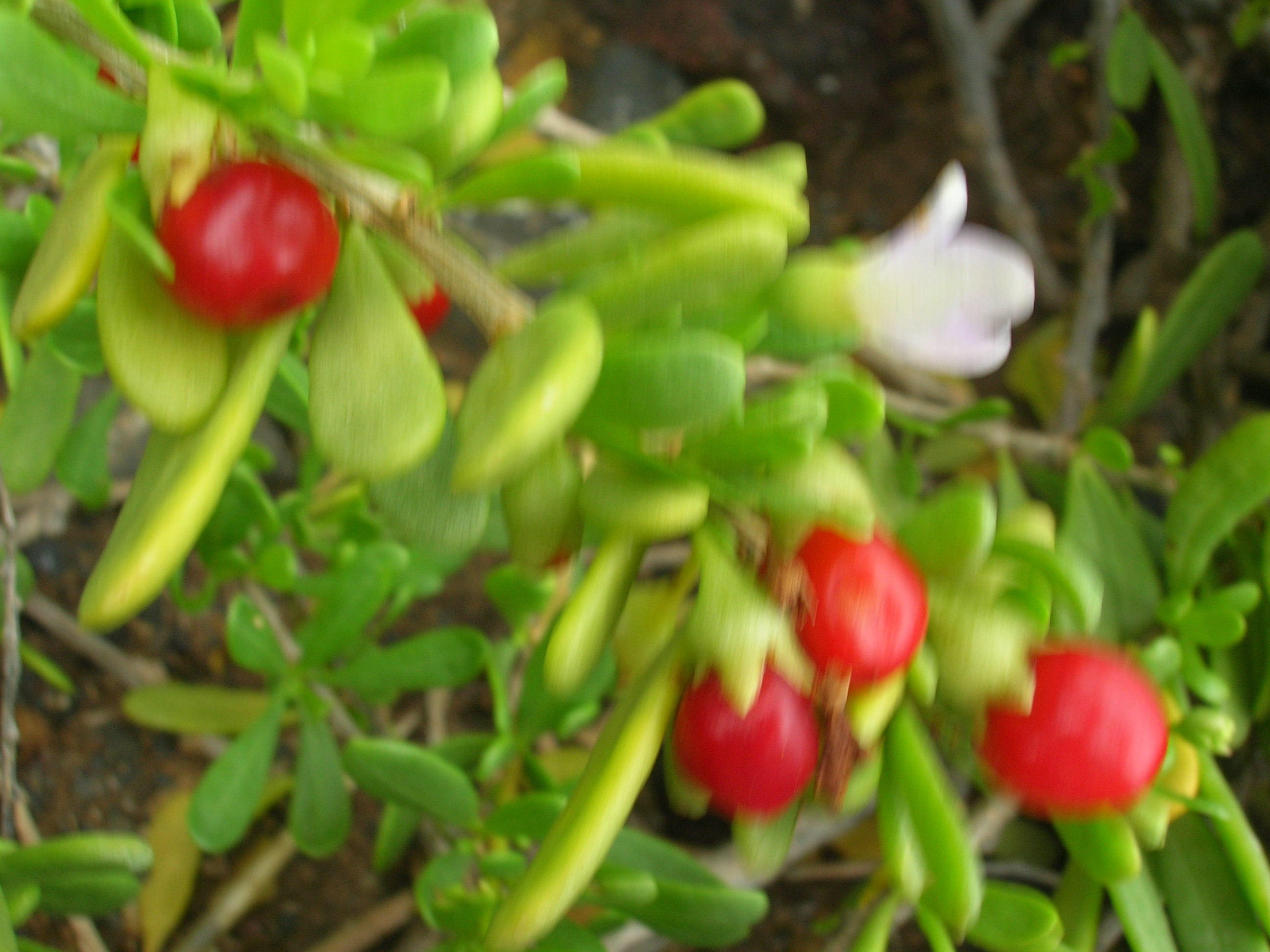 Lycium sandwicense (fruit and flowers). Location: Oahu, Moku Manu